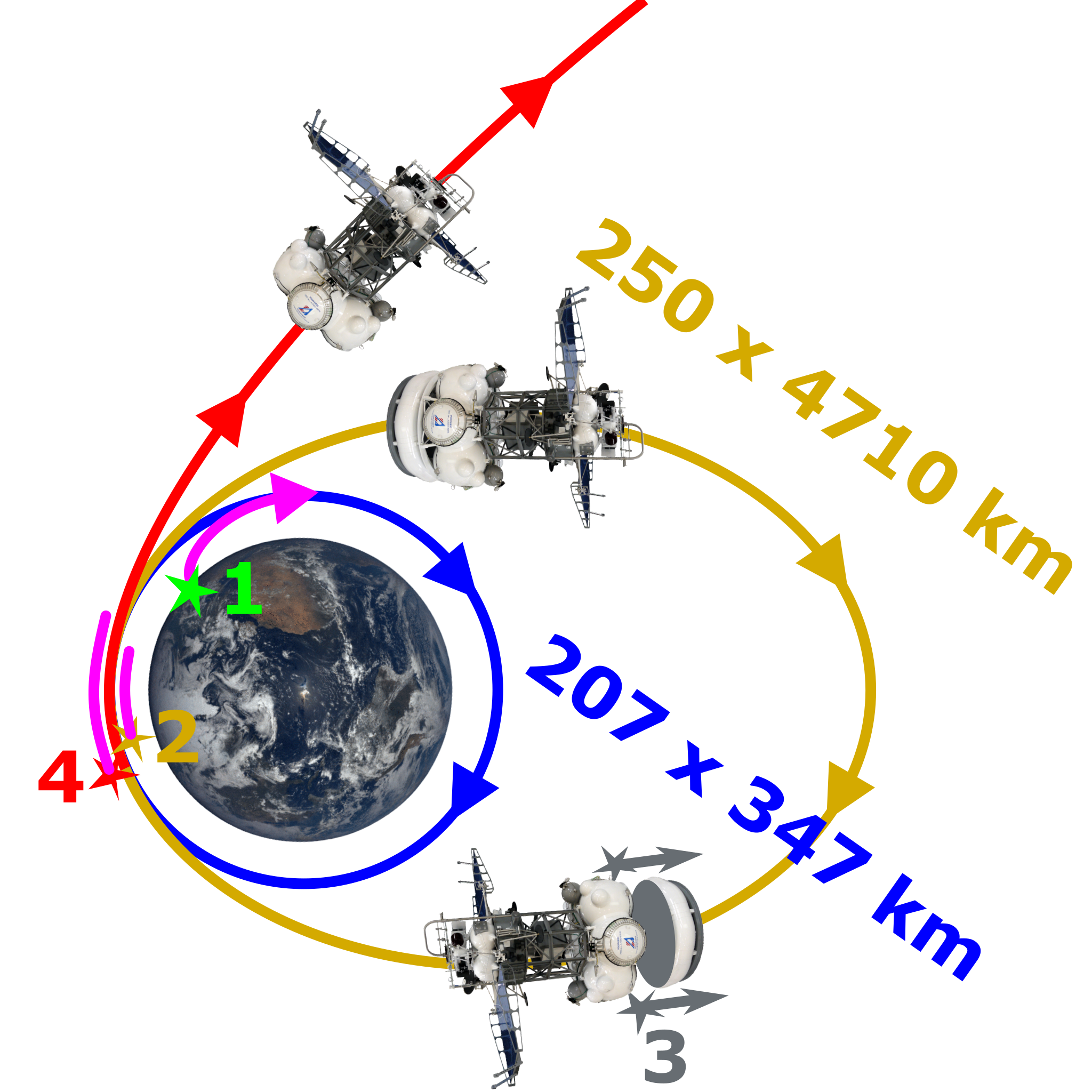 Phobos Grunt launch : manovers arond Earth